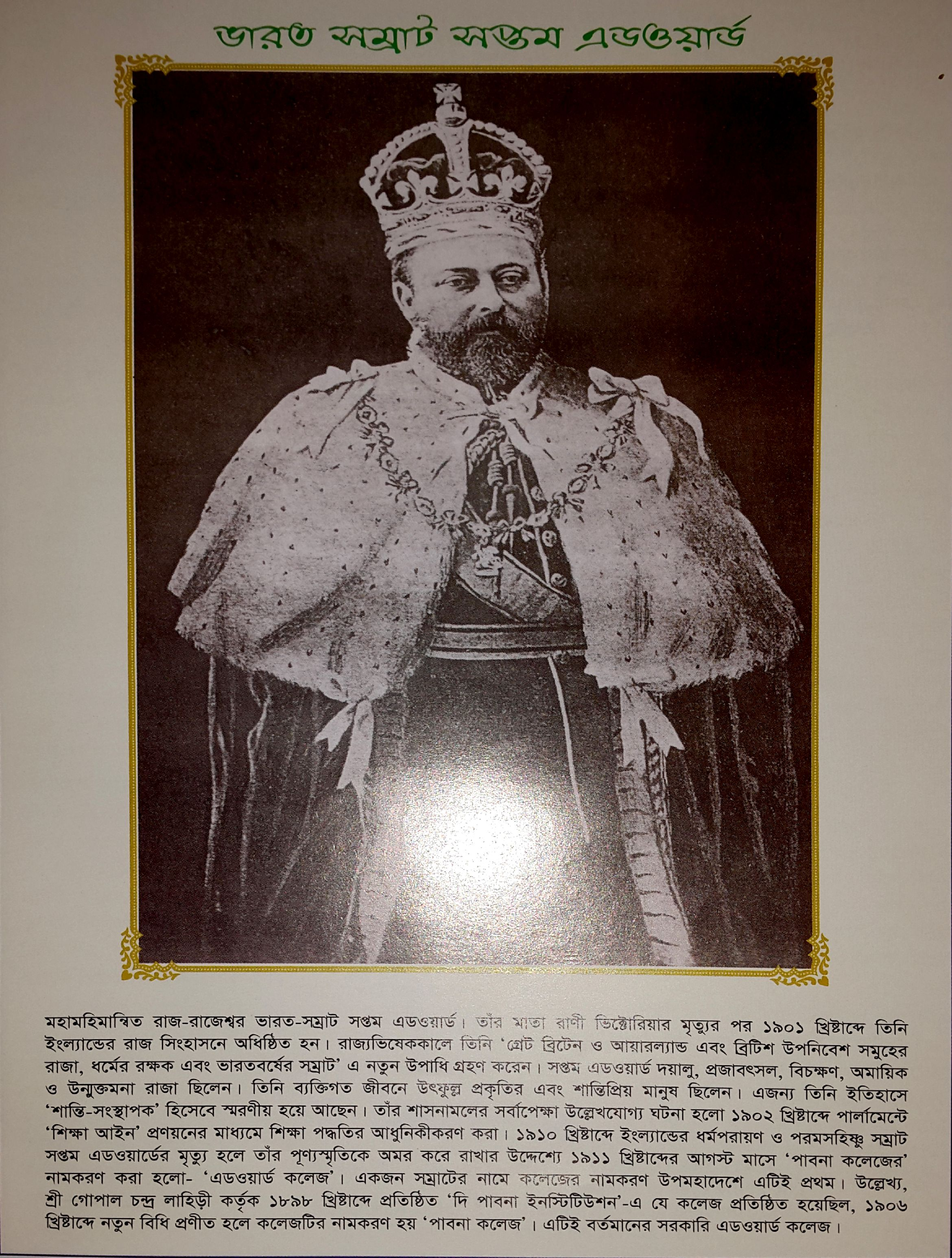 Indian Emperor at that time.